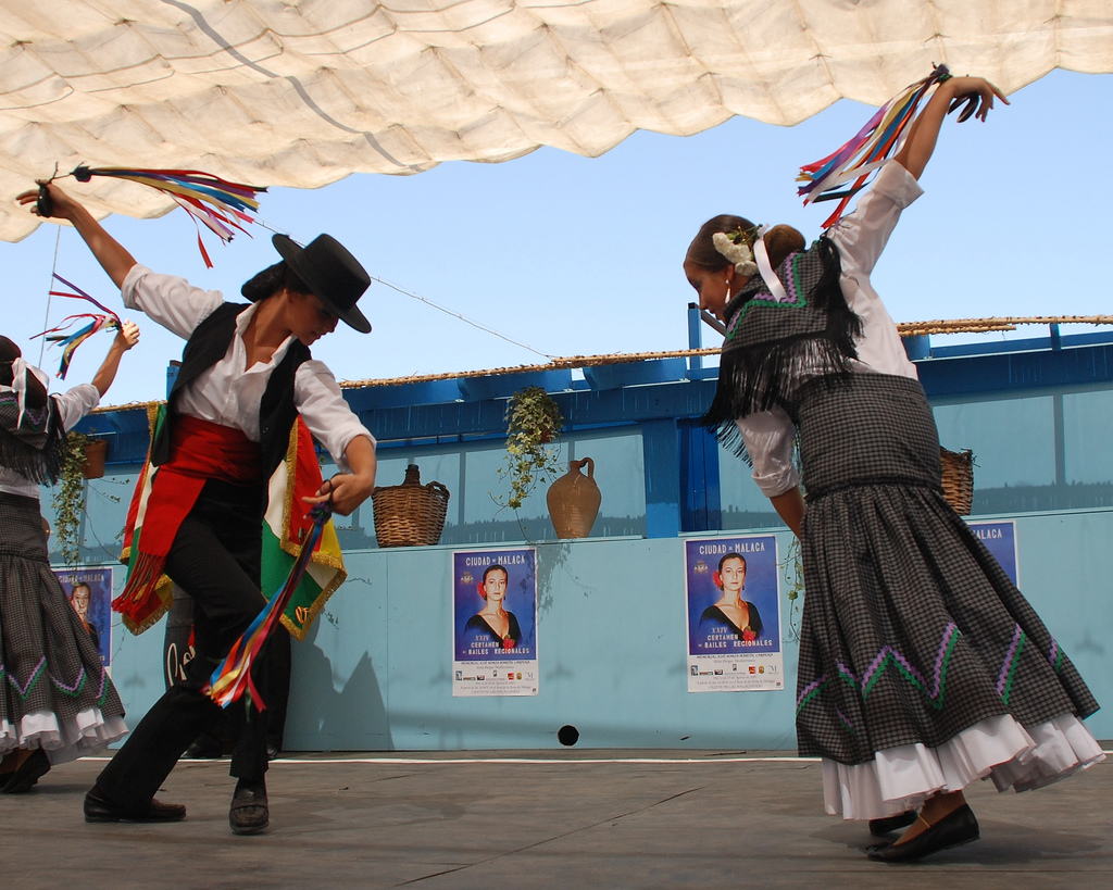 Verdiales, Málaga, Spain